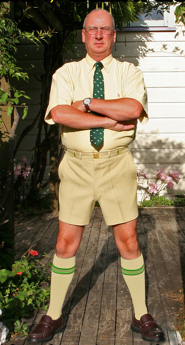 The typical New Zealand formal 'Walk Shorts and Walk Socks' look, popular from the 50's till the late 70's mid 80's, then seeing a steady decline as a more casual and unkempt appearance swept the nation. NZ Walk Shorts and Socks in Cream & Green.